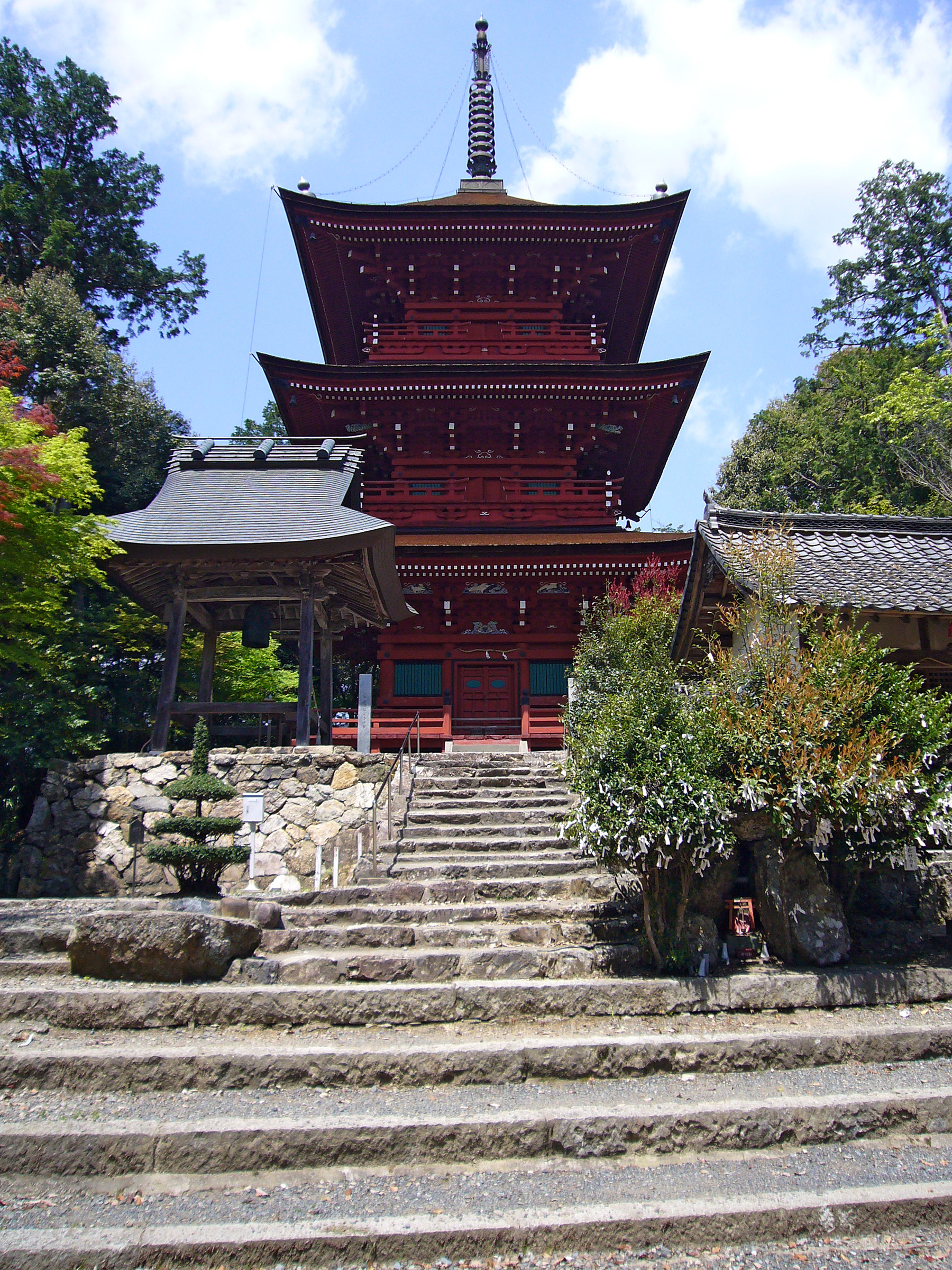 Kaibara Hachiman Jinja in Tamba, Japan